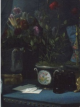 Portrait of Comtesse d'Haussonville, detail